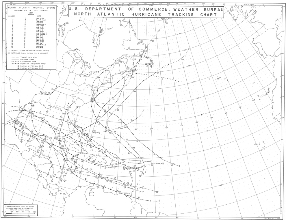 Season summary provided by NOAA of the 1933 Atlantic hurricane season.